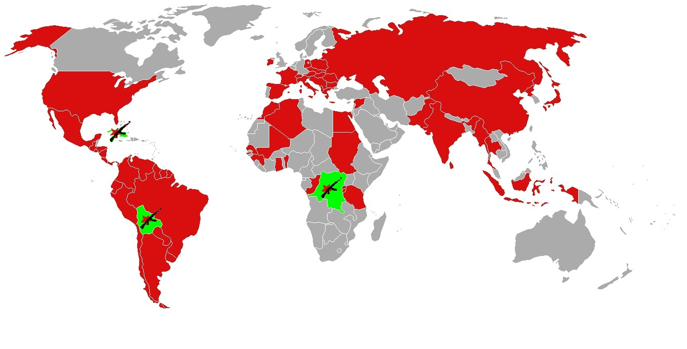 A world map displaying those countries lived in or visited by the revolutionary Che Guevara in red. Also included are the three nations where he engaged in armed revolution, signified in green. NOTE: All nations are displayed with current 2010 borders. However, Guevara's travels took place from around 1950-1967 (the year of his death), and if Guevara visited the U.S.S.R. for example, then all of those nations included in the U.S.S.R. at that time are shaded here in red. Some examples include his visit to East Germany resulting in the shading of all current day Germany, and his 1964 visit to New York City and 1952 month in Miami, Florida - resulting in the full shading of the United States. The duration of time also varies greatly between years, weeks and days in the various countries. An array of sources were used to compile the nations included. Some of these are Che Guevara: A Revolutionary Life by Jon Lee Anderson, Companero: The Life and Death of Che Guevara by Jorge G. Castaneda and Guevara, Also Known as Che by Paco Ignacio Taibo II.